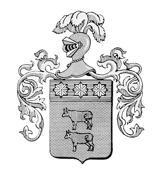 Coat of arms of the Carrera family (Chile).